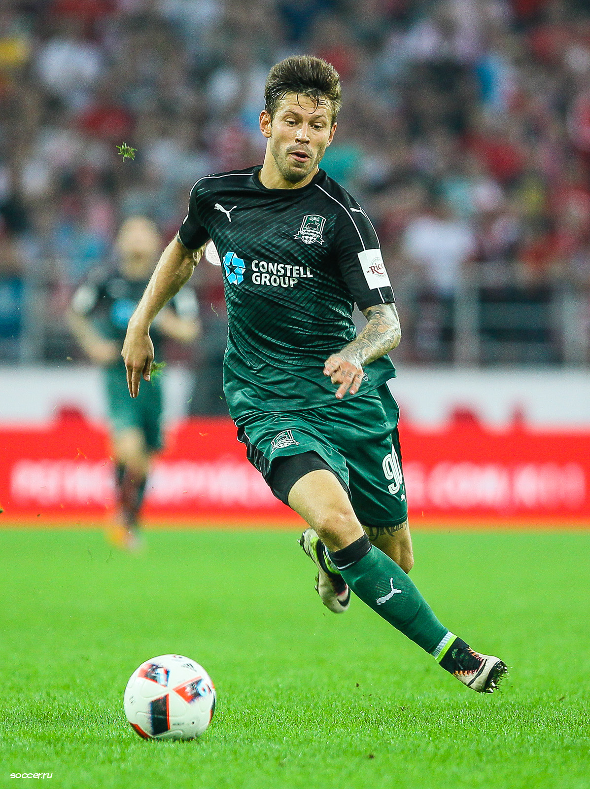 Fyodor Smolov